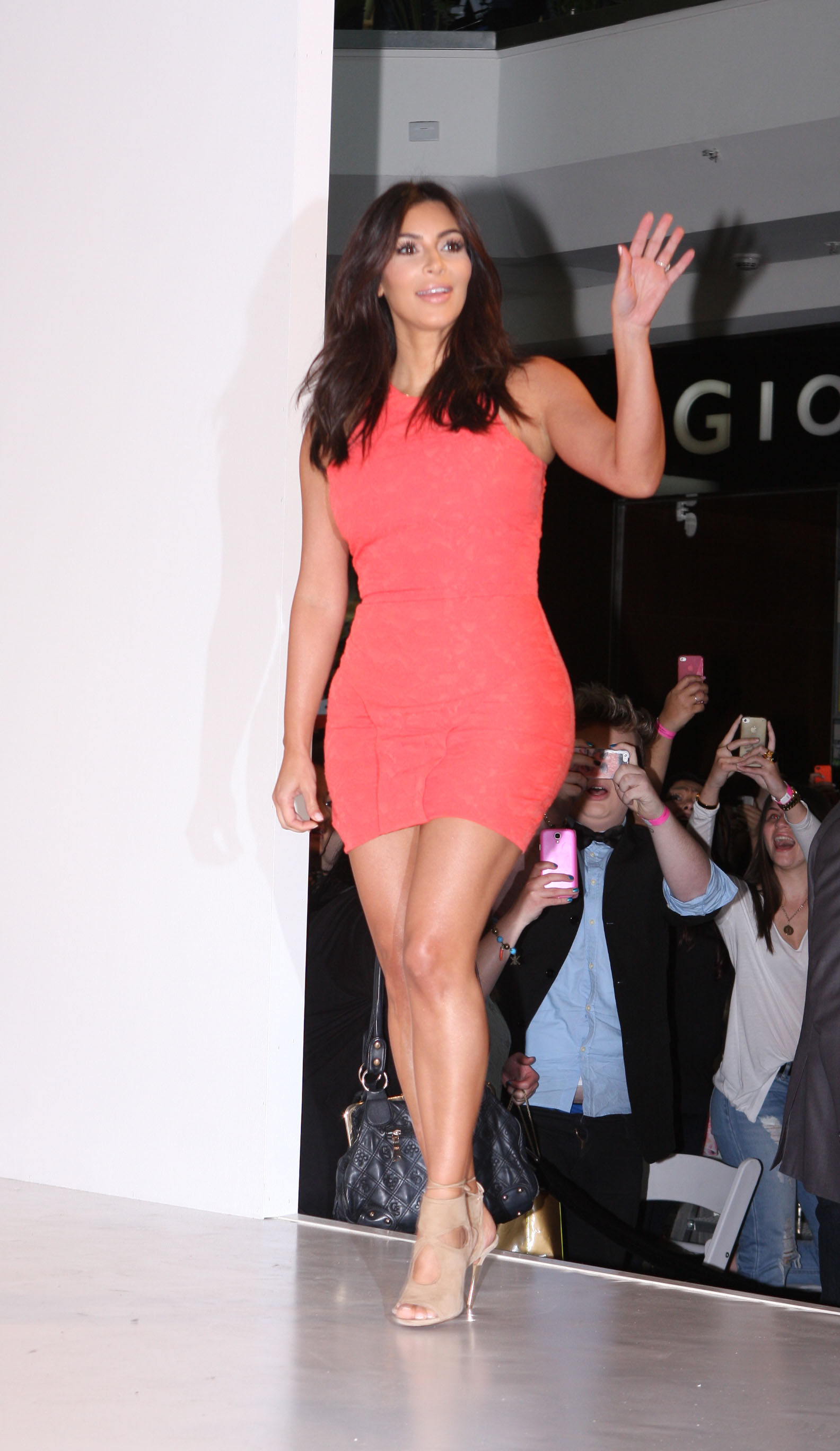 Kim Kardashian West, Parramatta Westfield Sydney Australia